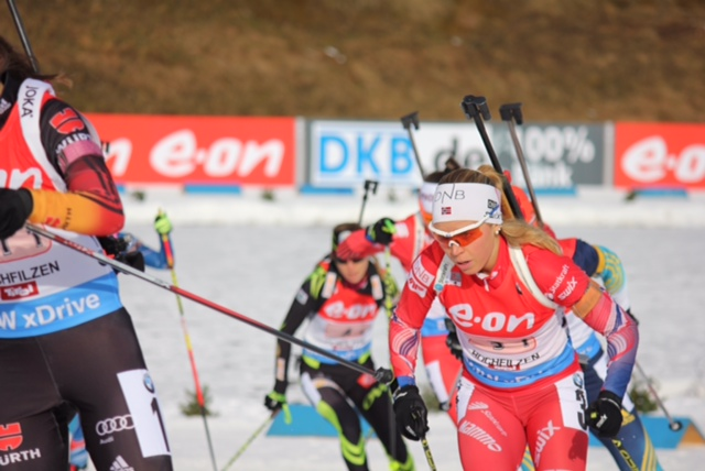 Elise Ringen in a biathlon world cup race in December 2014.